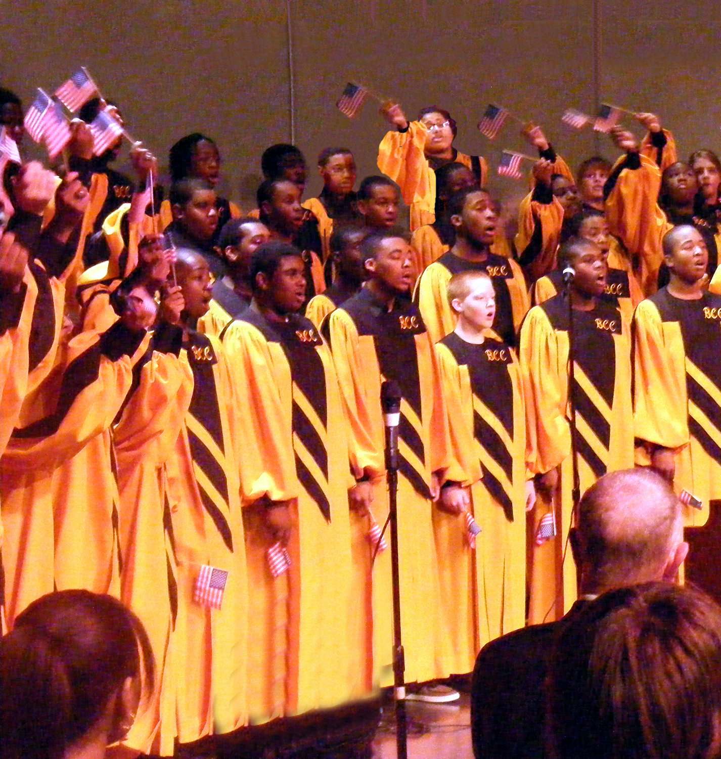 I took this picture; choir of Category:Baltimore City College